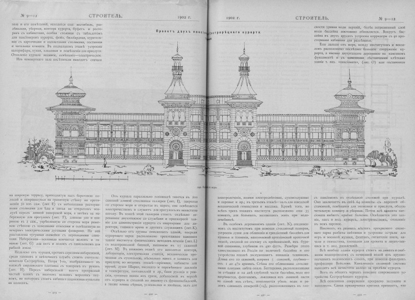 Project of two pavilions at the Sestroretsk resort by Vladimir Pyasetsky (1868-after 1934)